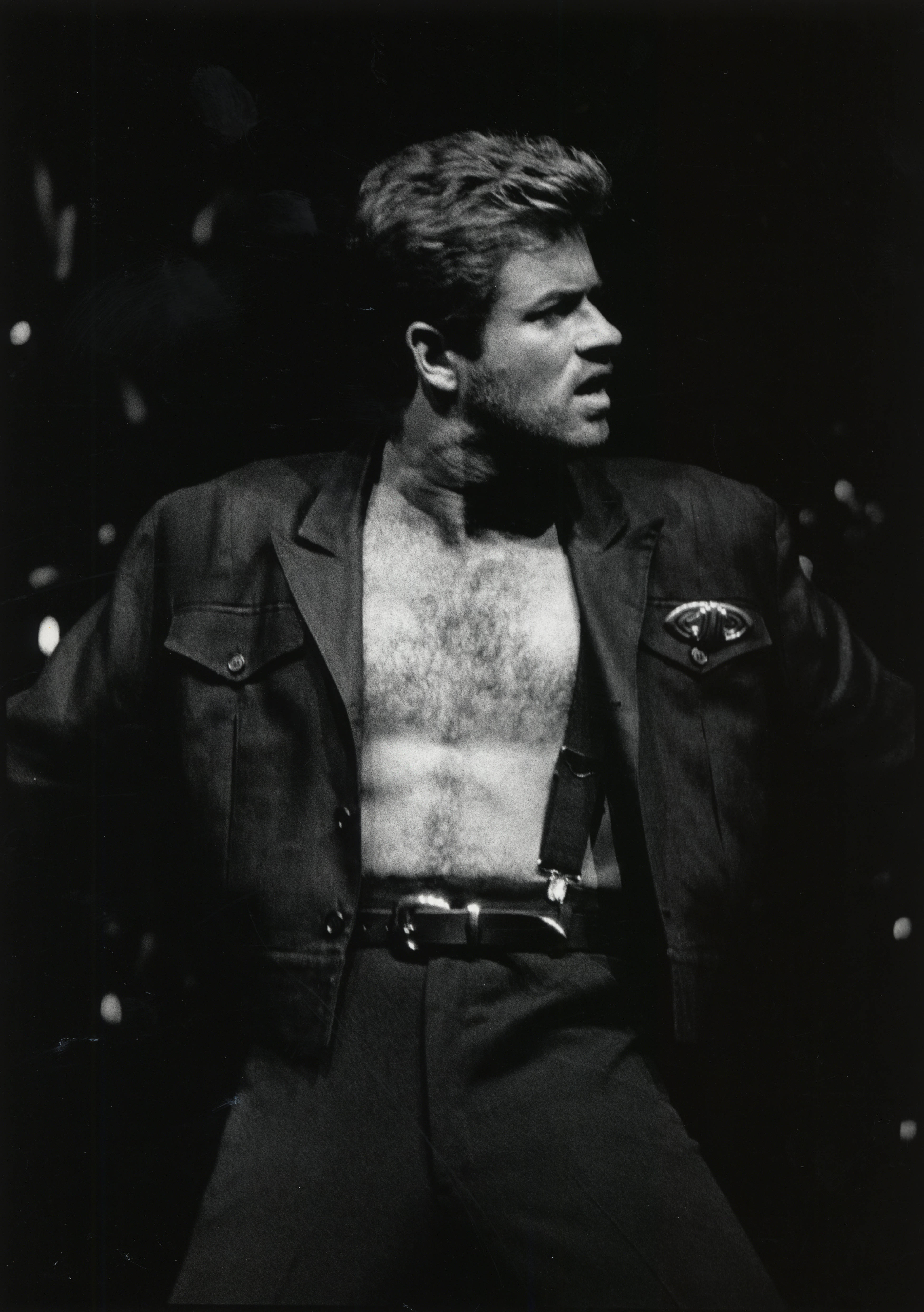 George Michael performing on The Summit stage in Houston (Texas, USA) during the Faith World Tour in 1988.